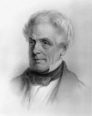 Portrait of Isaac Taylor (1787–1865), English writer.